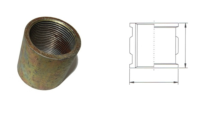 A Treaded pipe fitting.